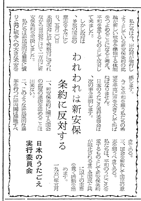 Declaration of Utagoe Commitee against the Treaty of Mutual Cooperation and Security between the United States and Japan (historical document)